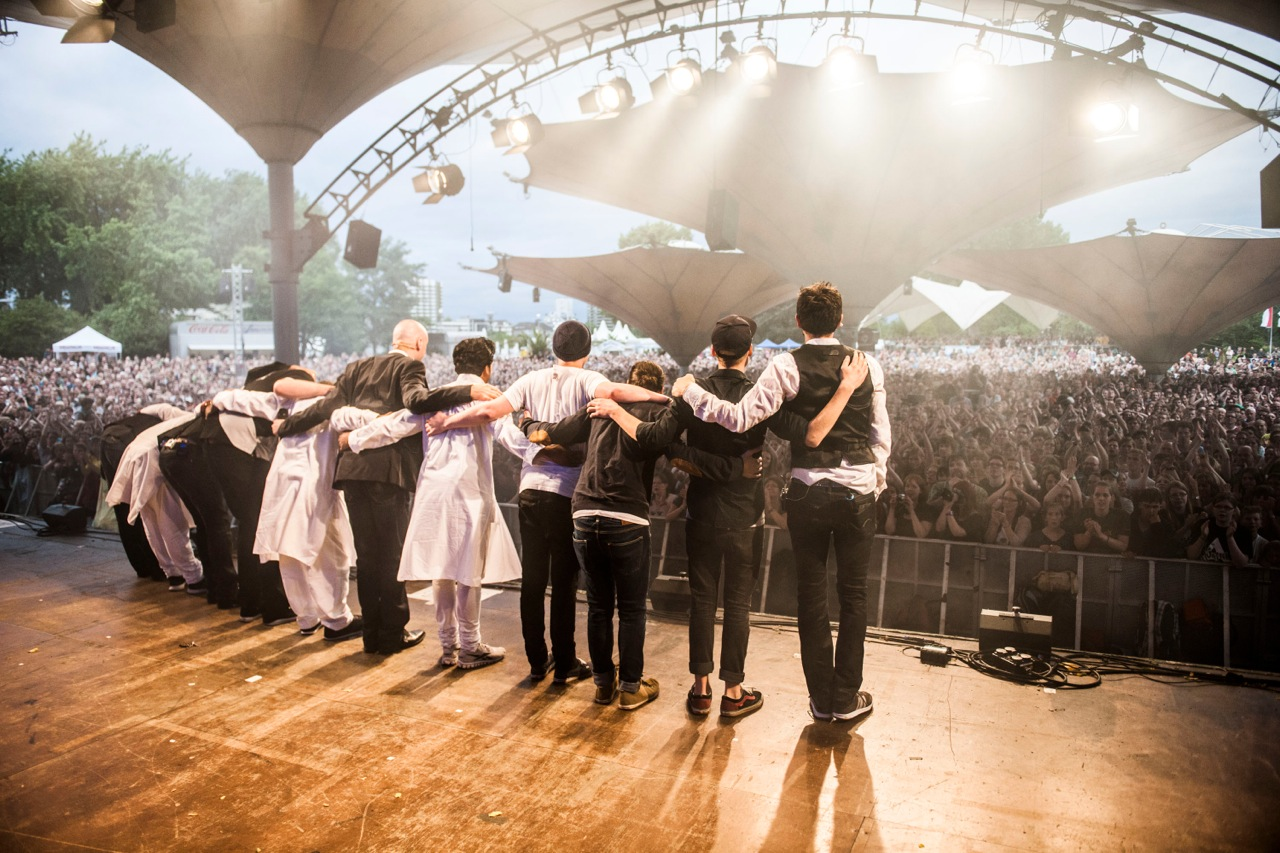 Pandit Vikash Maharaj (Maharaj Trio) with Wise Guys, Tanzbrunnen. 2013